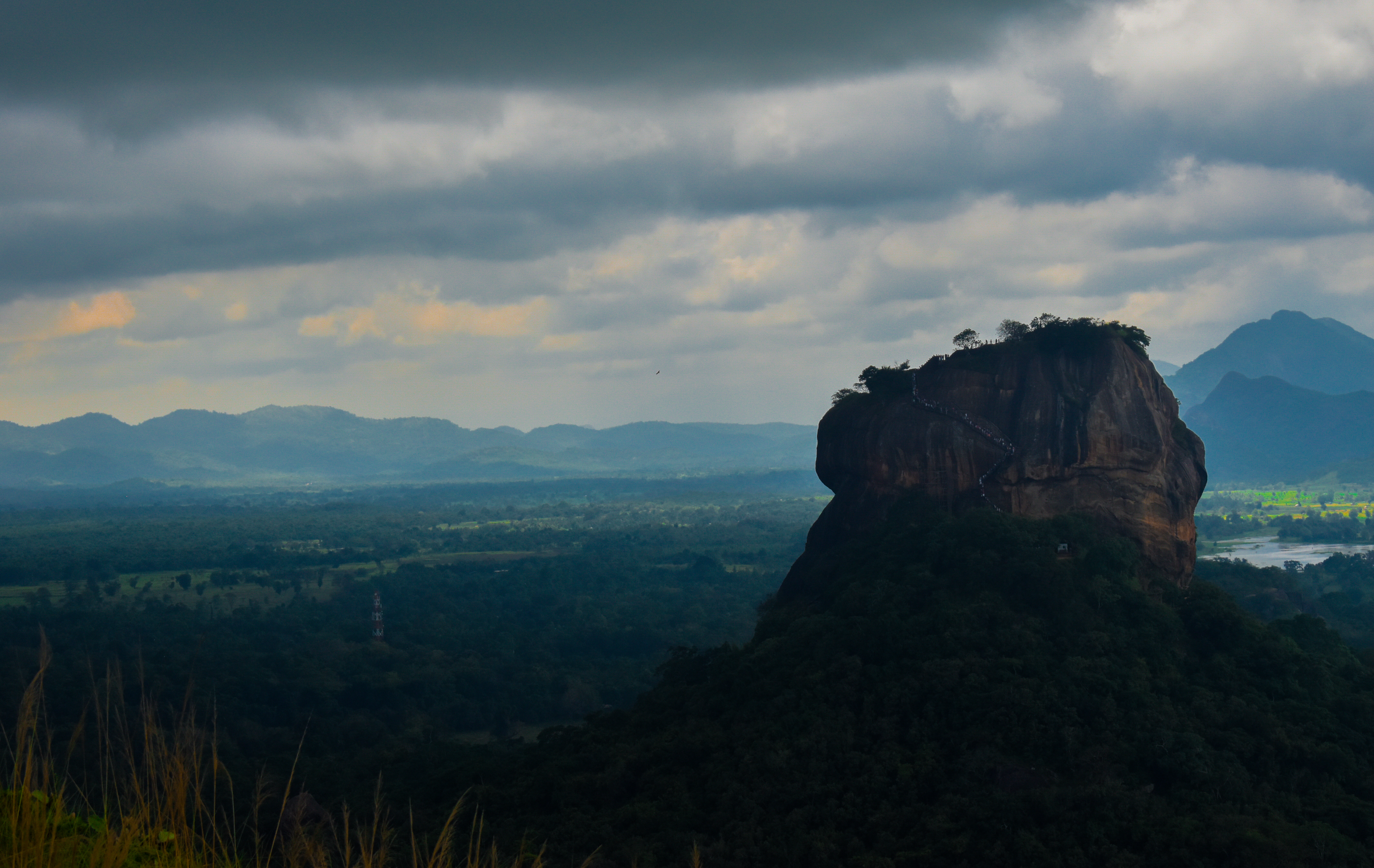 Seegiriya Rock from Pidurangala Rock,Sri Lanka